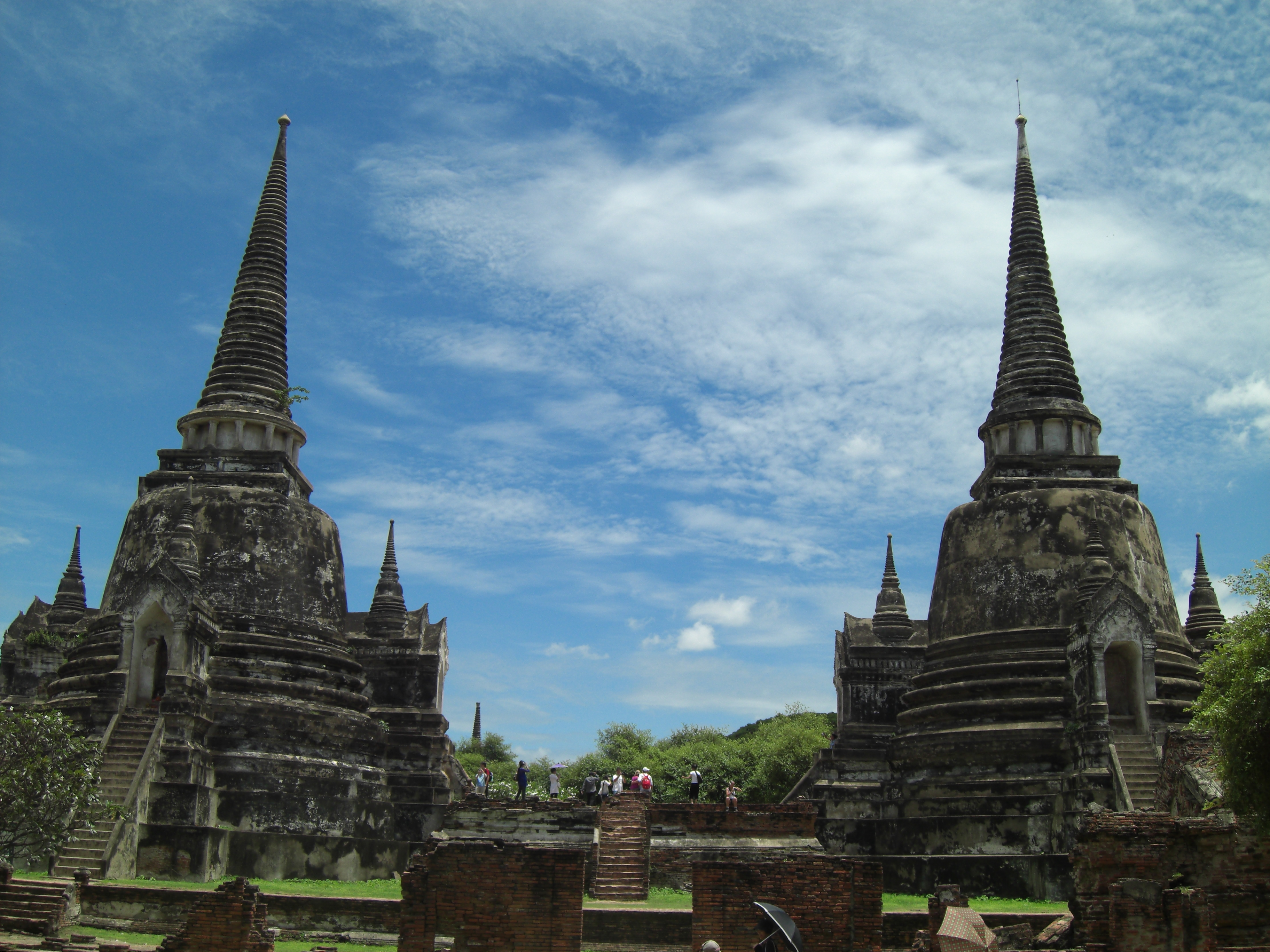 Chedis at Ayutthaya in Thailand